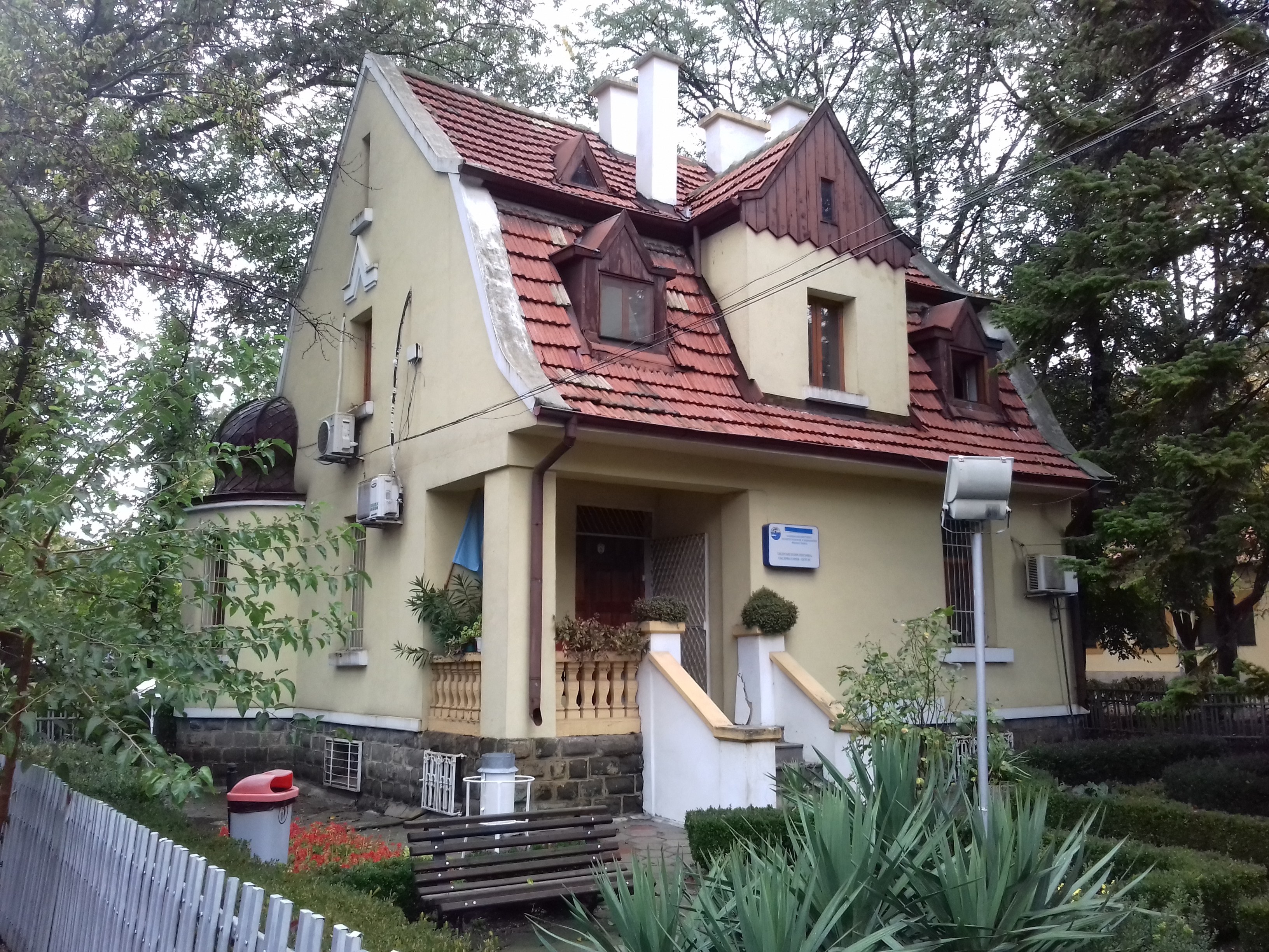 Hydrometeorolocigal Observatory, Burgas